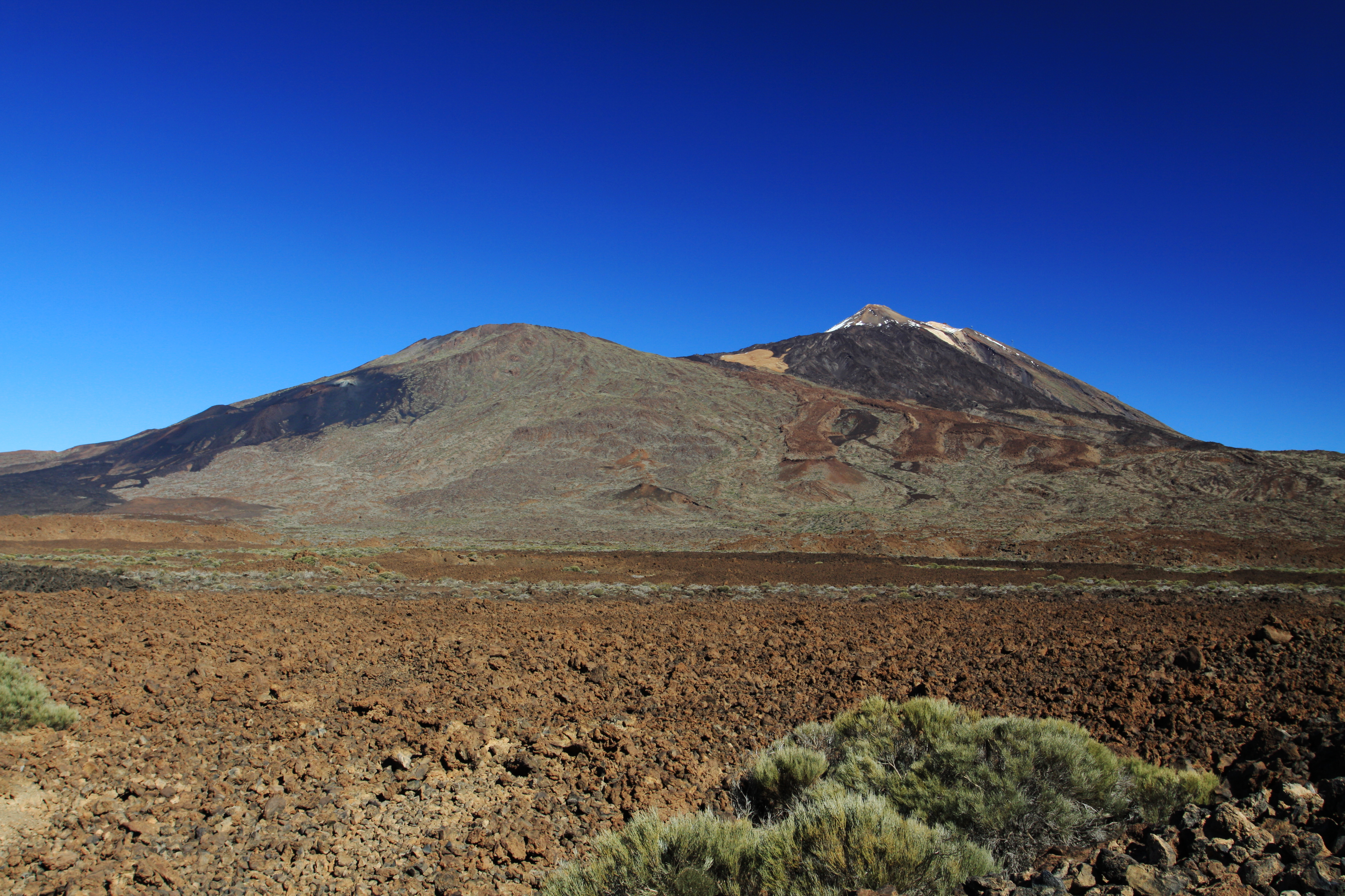 Volcano Pico Viejo on Teide on Tenerife, Canary Islands, Spain.